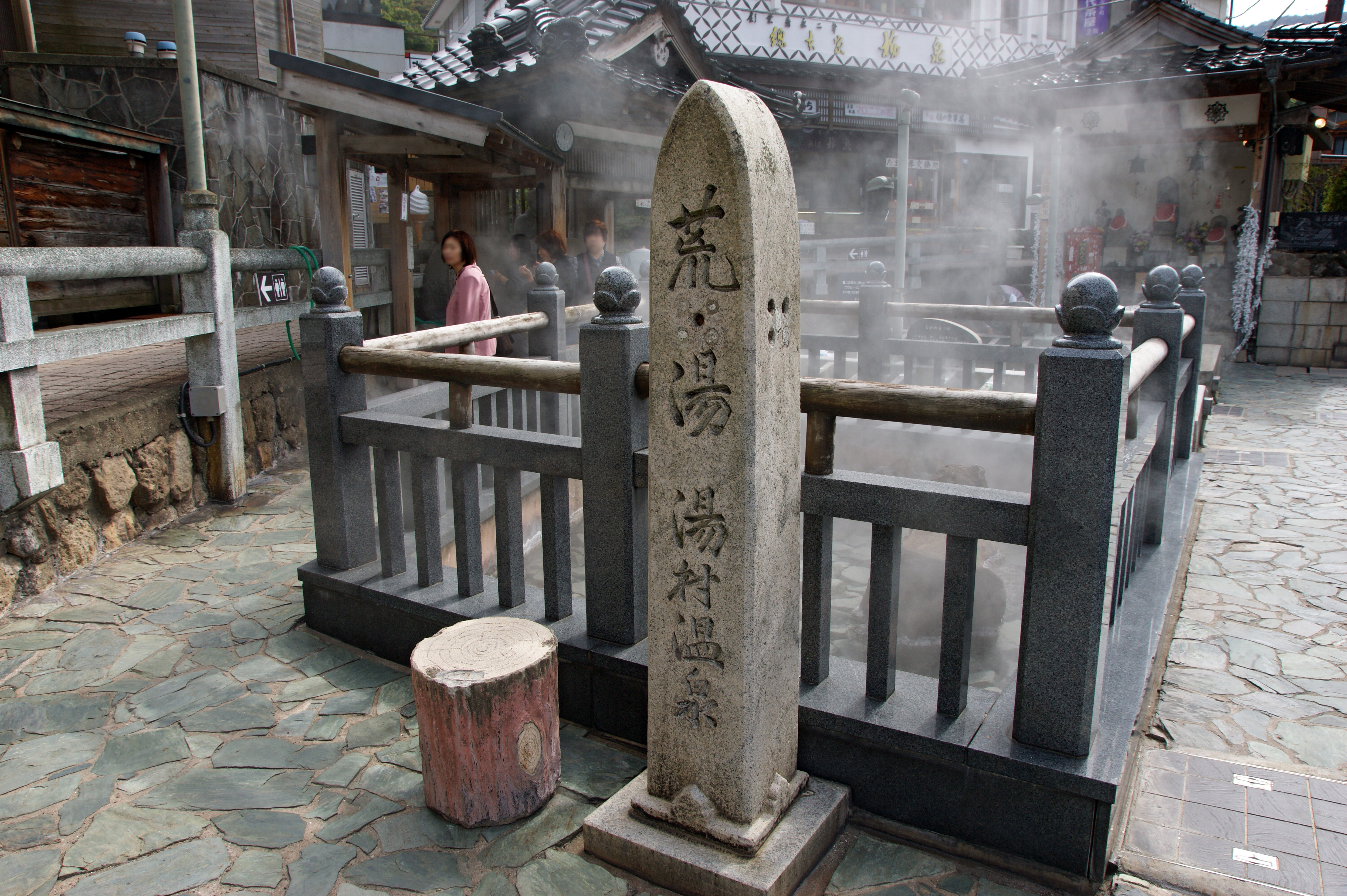 Yumura Onsen, Shinonsen, Hyogo prefecture, Japan